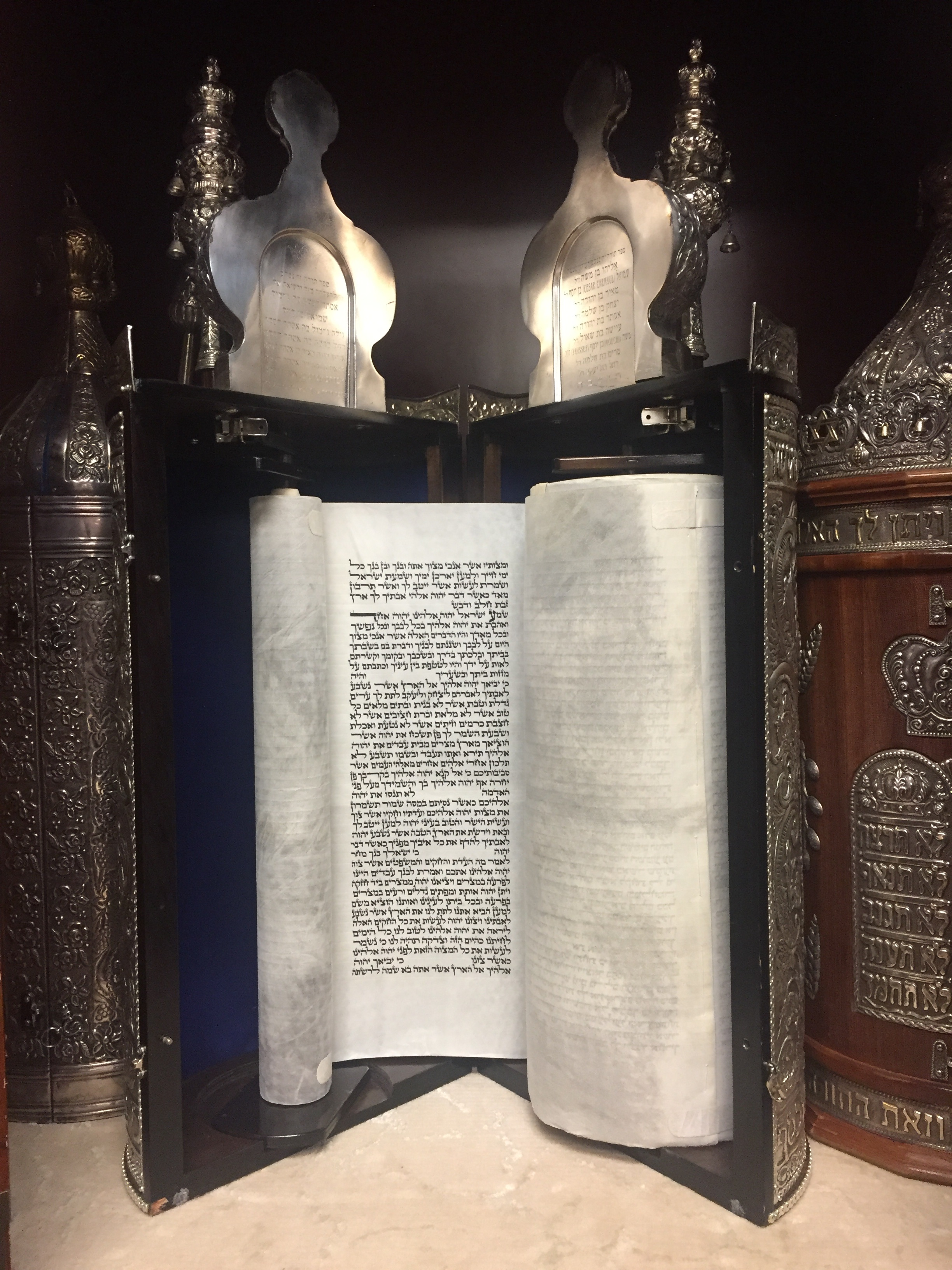 Image of a Jewish Sephardic Torah Scroll